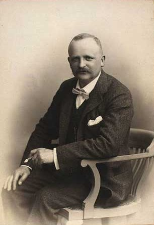 Danish architect Hack Kampmann (1856-1920)